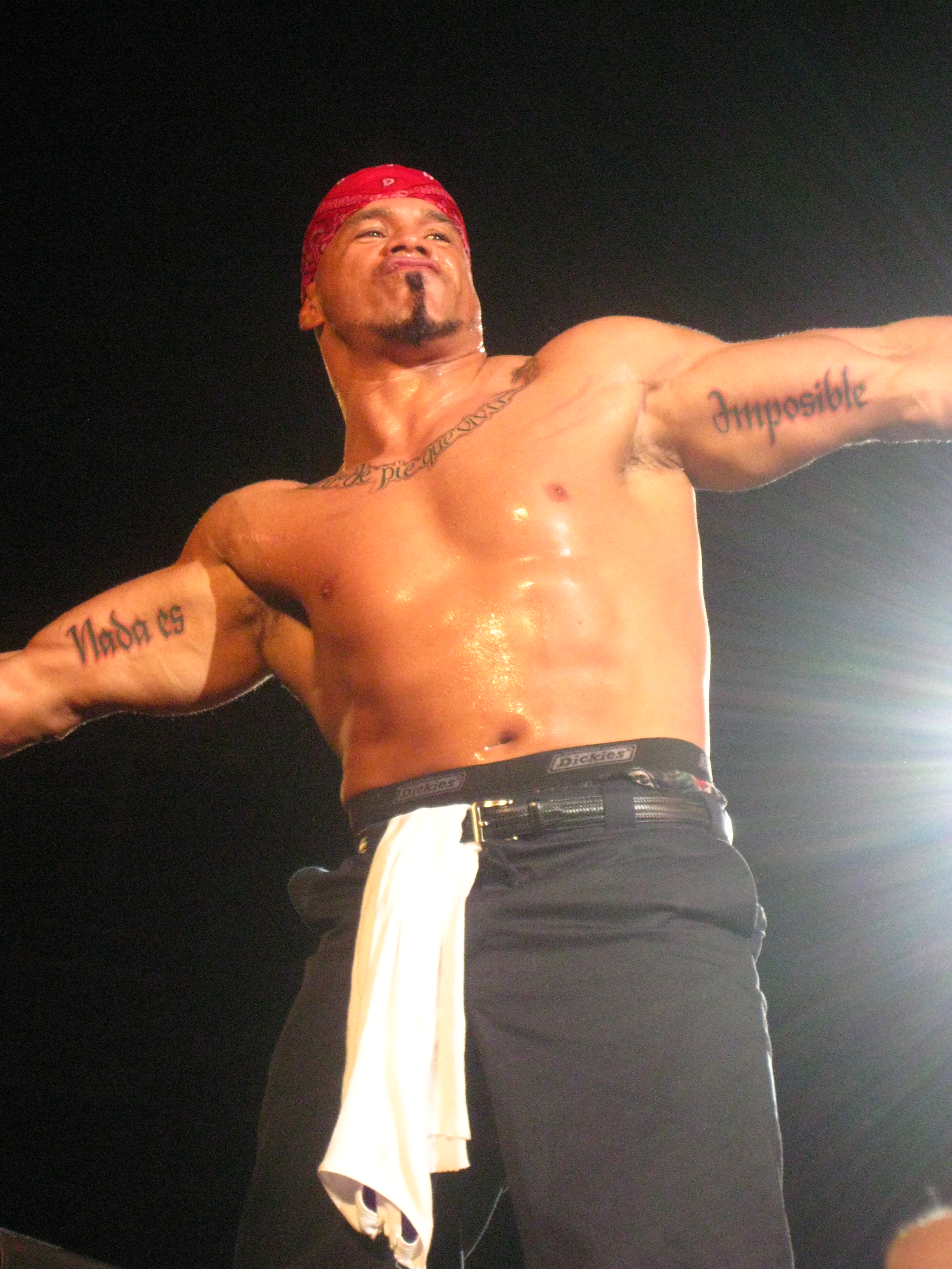 A TNA Live! Even at the ShoWare Center in Kent, WA. No PRO cameras were allowed so I had to put my Canon PowerShot SD1100 IS to work!